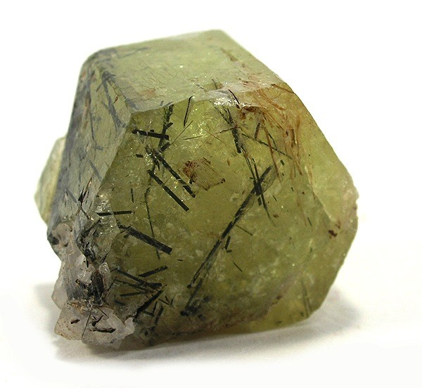 Apatite, Aegirine Locality: Kola Peninsula, Murmanskaja Oblast', Northern Region, Russia (Locality at ) A totally unique piece to my experience, that is really quite mesmerizing! The aegerines or dark tourmalines as they had been previously (mid)identified add to the weird effect of the piece. It seems to be complete all around, nearly a floater, and its just plain weird-lookin'. But for an apatite or Russia collector, weird is good...It is so weird, I had never seen one and had no idea that i was passing along a label error as i bought it as Heliodor with Elbaite 2.7 x 2.3 x 1.7 cm